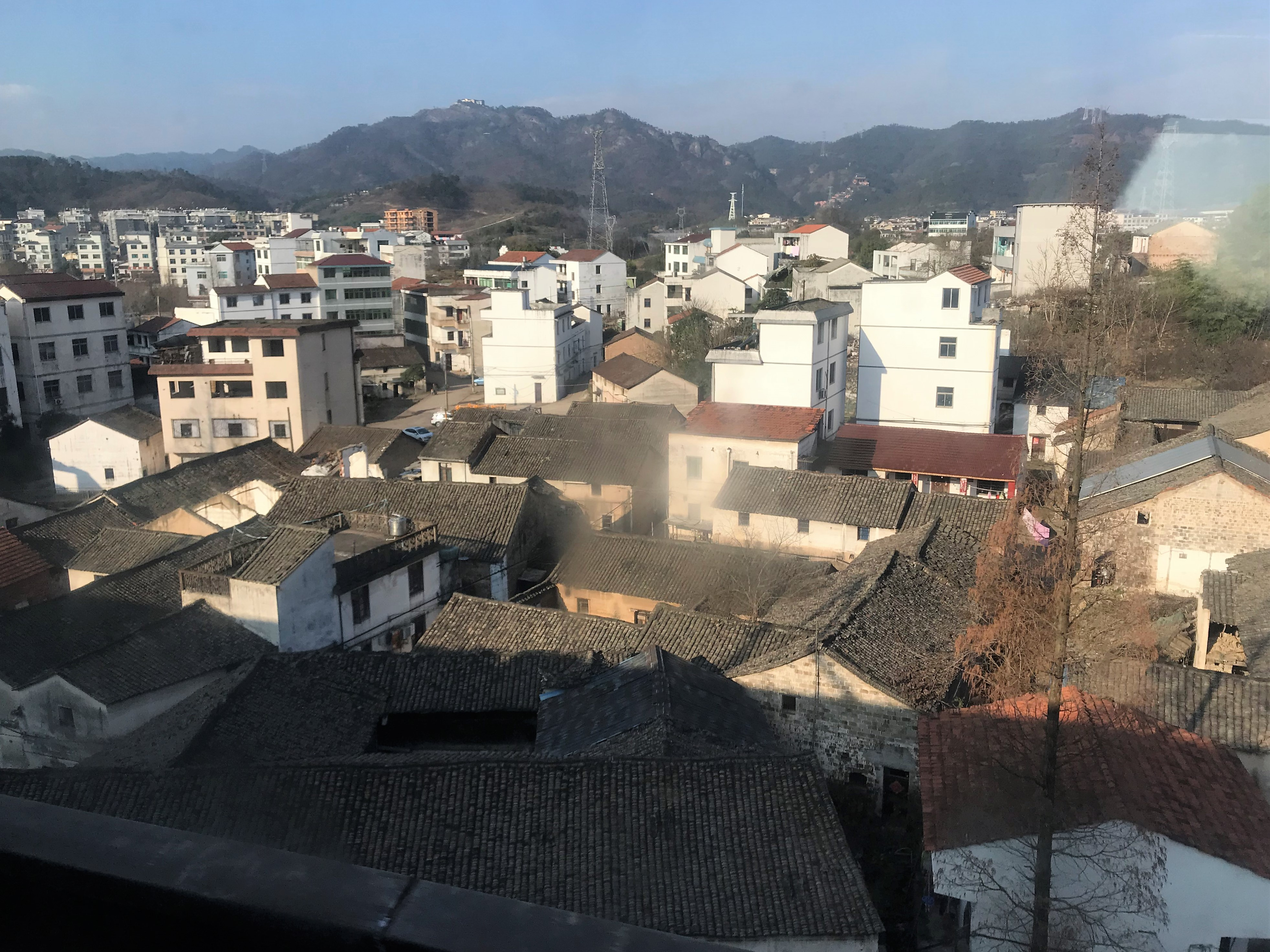 Not far from Yiwu Station